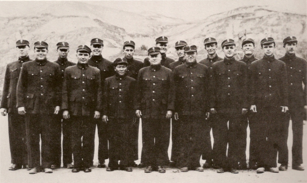 The first two teams of the Dixie Mission to Yan'an, 1944. Dressed in Communist produced "Chung-shan" suits. From left to right: Ludden, Jones, Stelle, Gress, Domke, Nakamura, Cromley, Barrett, Dole, Service, Peterkin, Remenih, Hitch, Whittlesey, Colling, Dolan. (Not present are Cromberg and Foss). Scanned and cropped from David Barrett's Mission to Yenan. Photograph taken by military personnel on the mission.